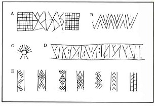 Protowriting in Skara Brae